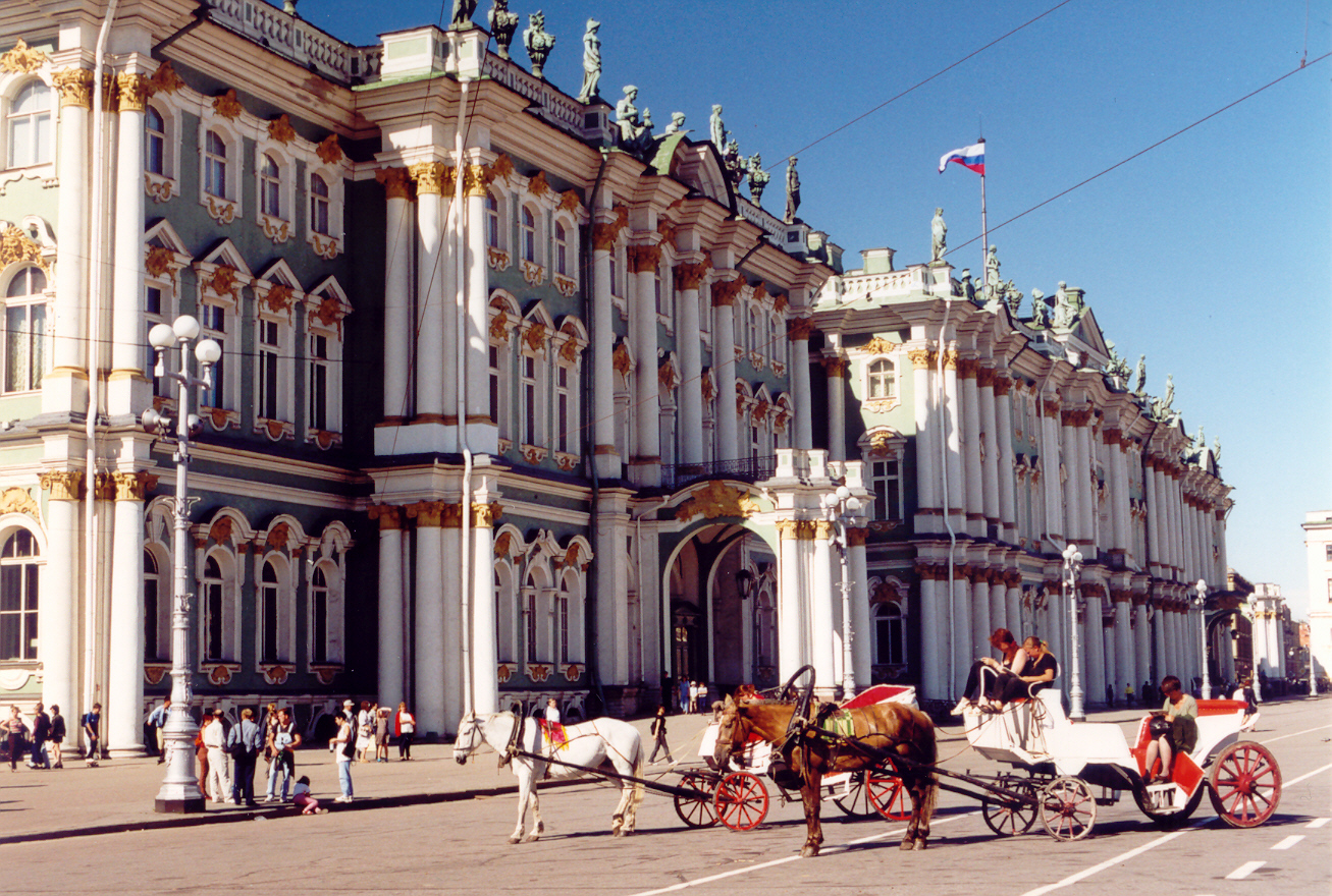 Image Saint Petersburg,Russia-Winter Palace (Eremitage),Sankt Petersburg/Russland Northern Capital of magic and light